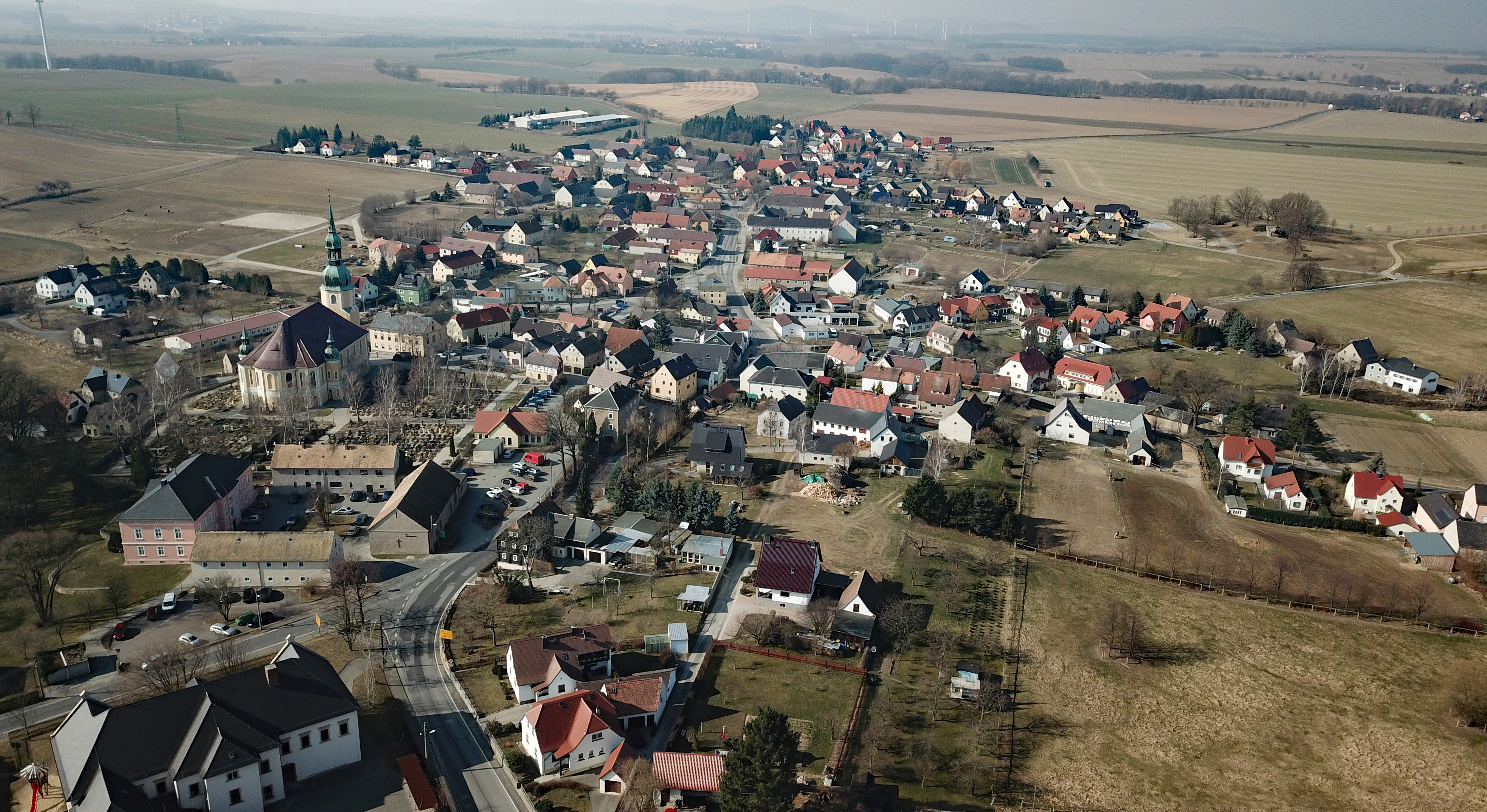 Crostwitz (Saxony, Germany) Hornjoserbsce: Powětrowy wobraz Chrósćic